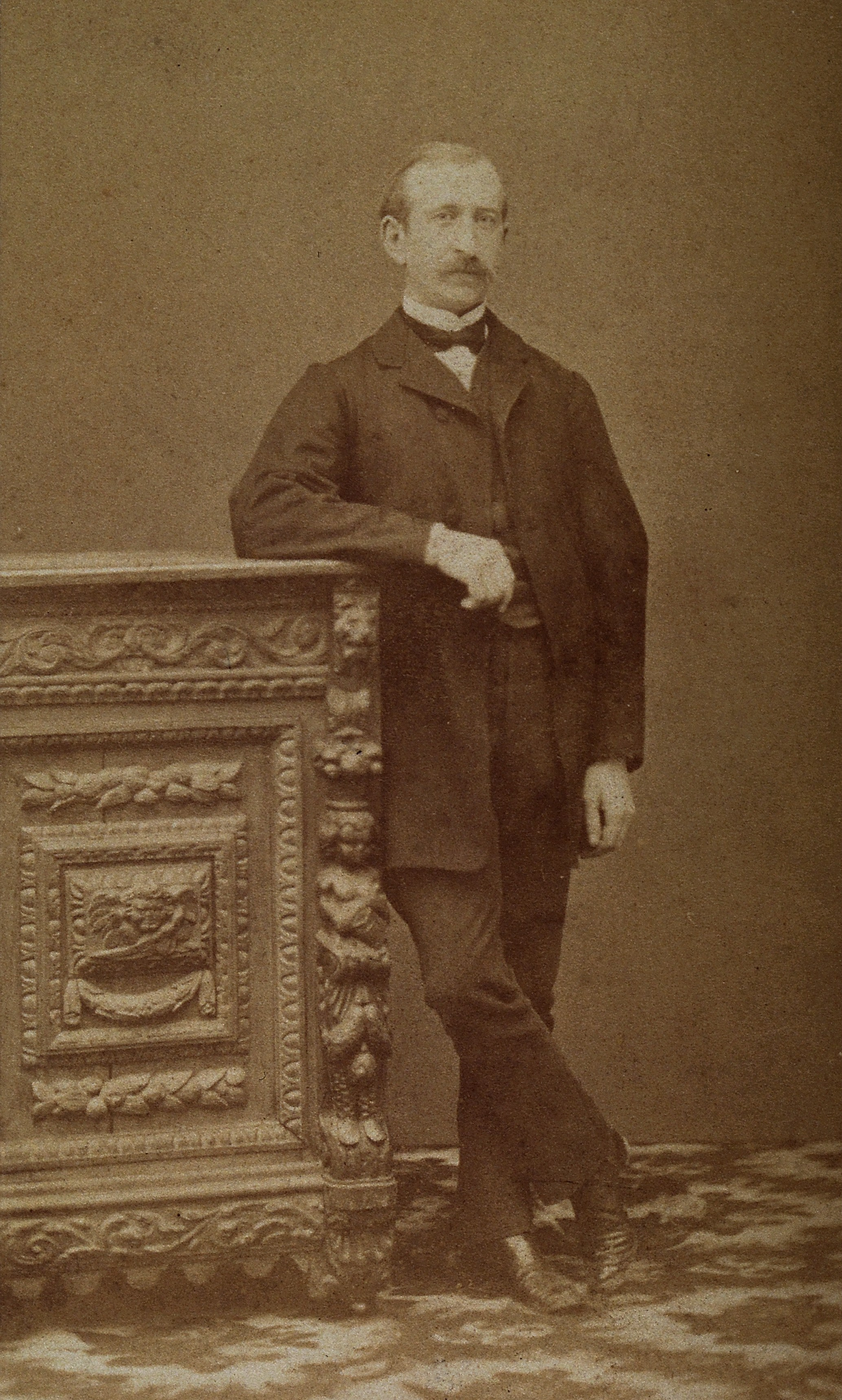 Jules Raulin. Photograph by Franck, 1869. Iconographic Collections Keywords: portrait photographs